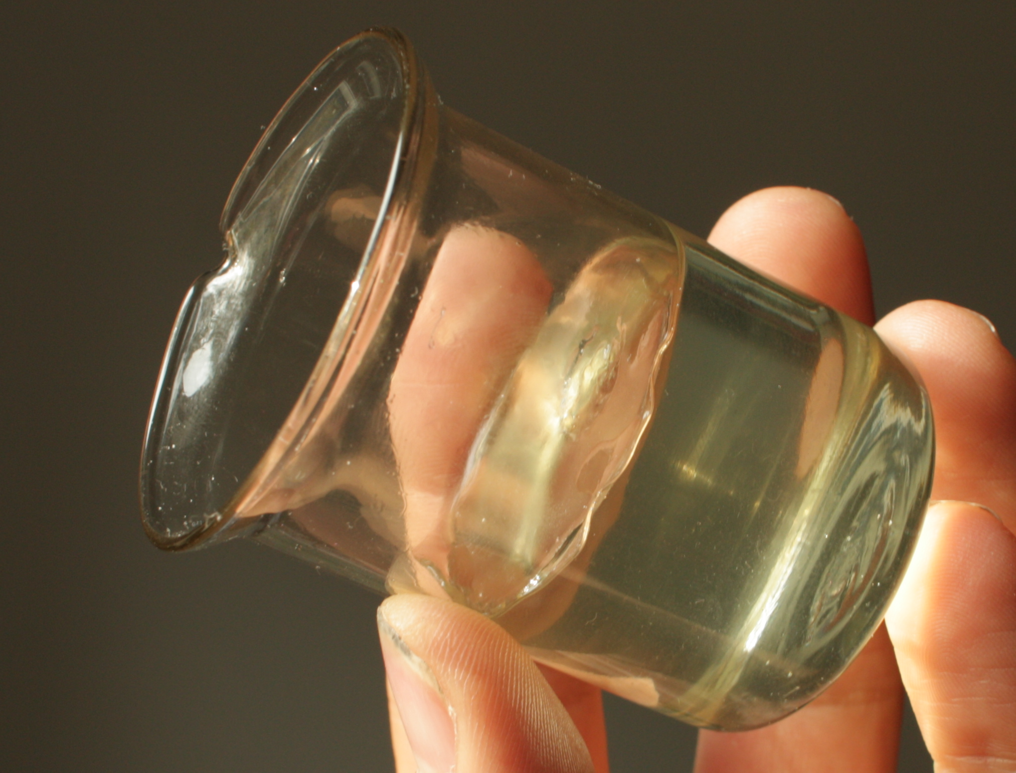 A highly viscous, ternary liquid crystalline cubic phase gel of water, polysorbate 80, and medical liquid paraffin in volume ratio 48 : 45.5 : 6.5.